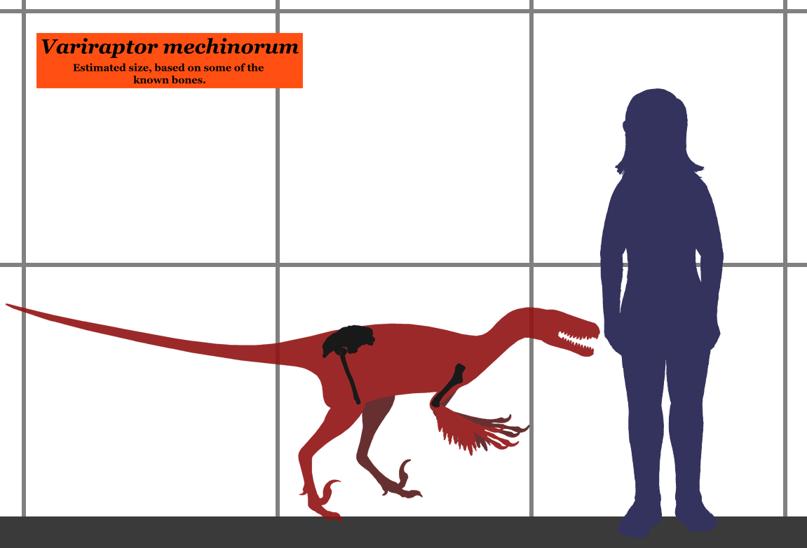 Estimated size of Variraptor mechinorum, compared to a human. Variraptor are only known from a few bones (a few vertebrates, Ilium, femur and humerus), and therefore, its exact size are unknown. The size in this diagram are based on the ilium (23 cm. long),[1] the Femur (23 cm. long) [2] and the Humerus (19.5 cm. long).[3] References ↑ [1]. ↑ Mechin, P., Mechin-Salessy, A. et.al. (1992), "The first record of dromaeosaurid dinosaurs (Saurischia, Theropoda) in the Maastrichtian of southern Europe: palaeobiogeographical implications", Bulletin de la Société Géologique de France 163: 337–343 ↑ Buffetaut E & Loeuff J.L. (1998), “A new dromaeosaurid (Dinosauria, Theropoda) from the Late Cretaceous of Southern France”, Oryctos 1: p. 105-112. Sacrum.